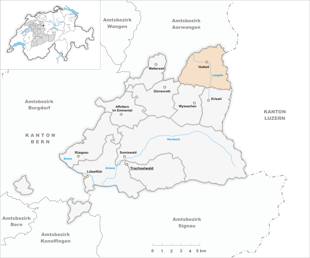 Municipality Huttwil